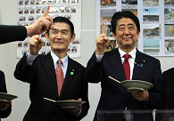 Shinzō Abe, Prime Minister, inspected the Machi Nami Marché with Masahiro Imamura, Minister for Reconstruction, and Hiroaki Nagasawa, Senior Vice-Minister for Reconstruction, in Namie Town, Futaba District, Fukushima Prefecture on April 8, 2017.